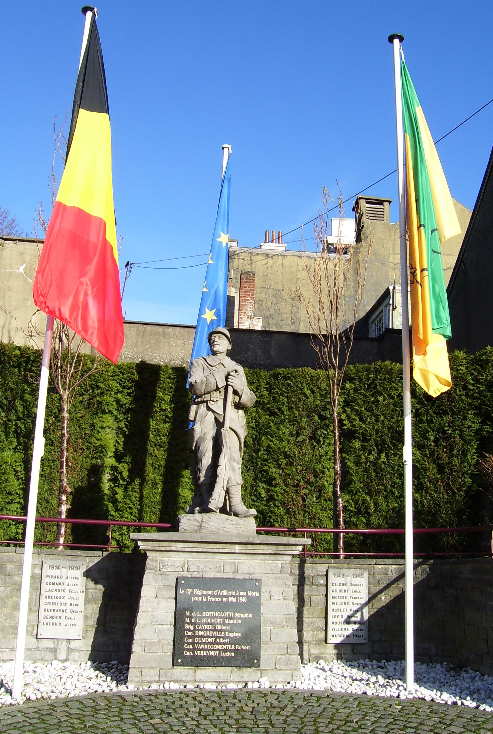 Memorial of the two World Wars at Grand'Place in Mont-Saint-Guibert, Belgium